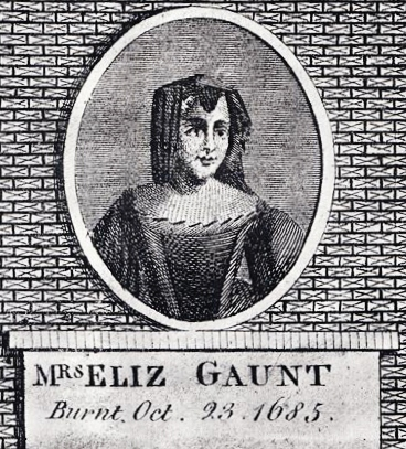 Elizabeth Gaunt